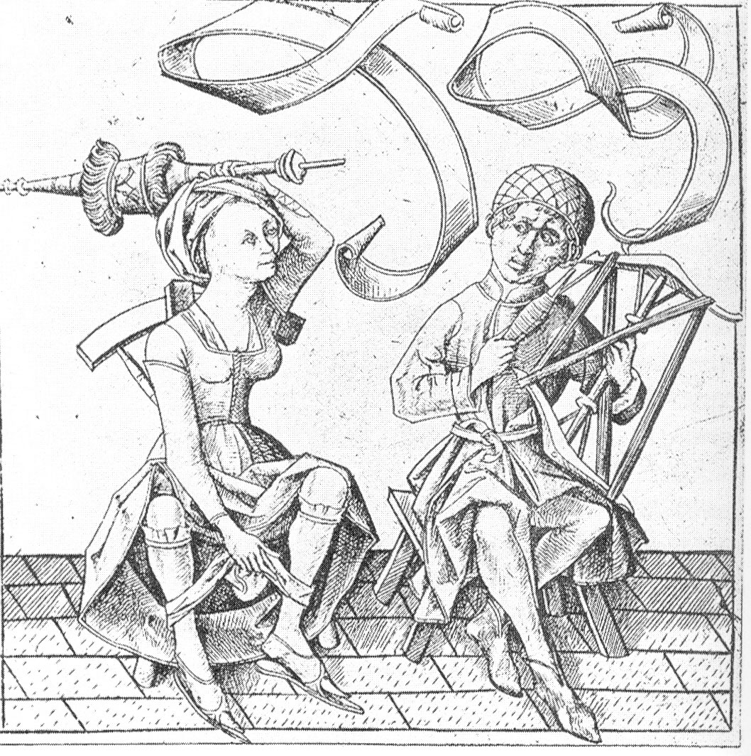 "The world turned upside down" (gender-role reversal)